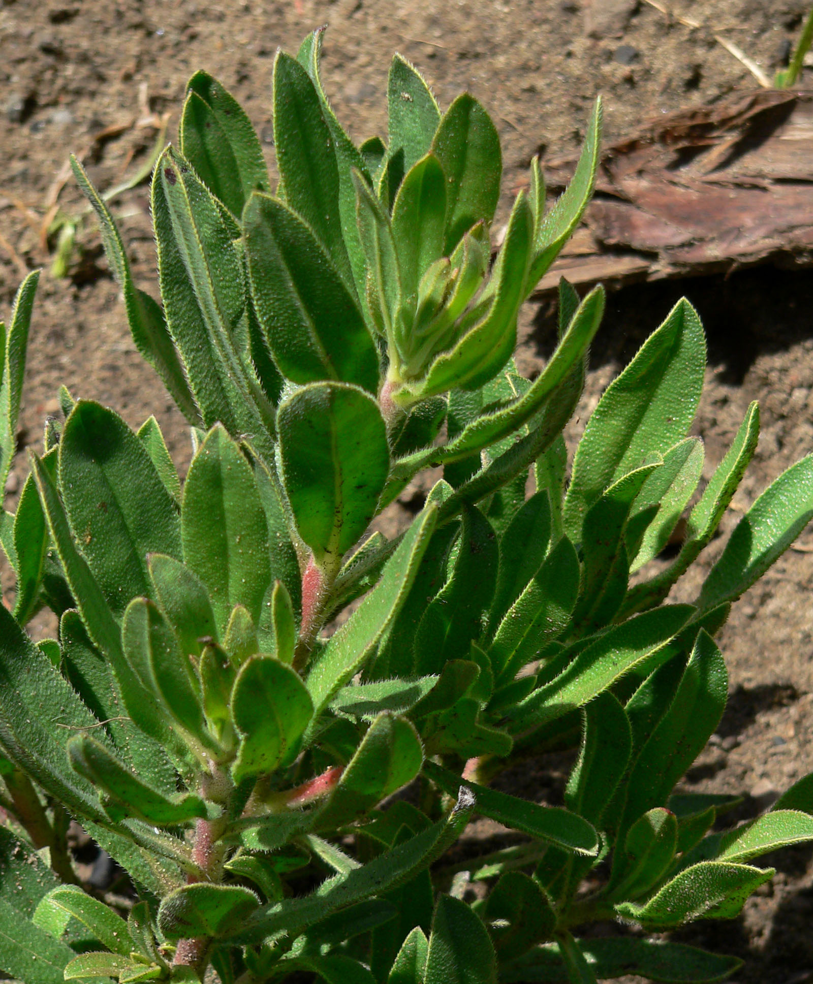 Lobostemon fruticosus at the San Francisco Botanical Garden